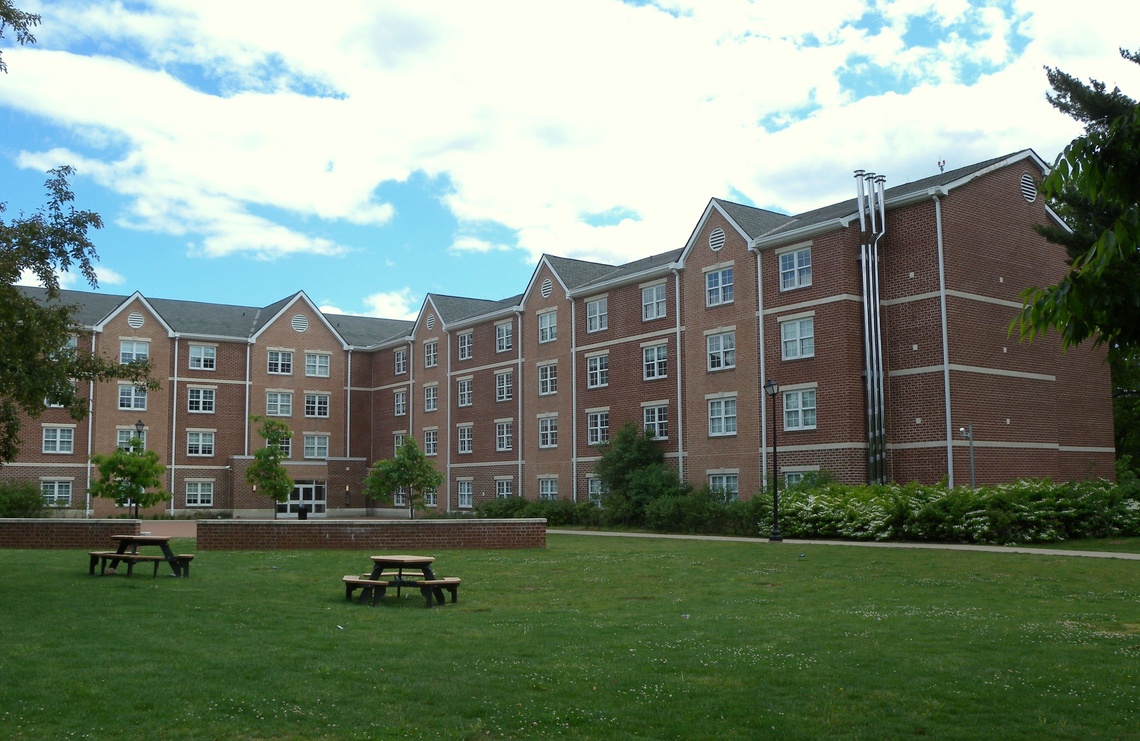 Looking southeast at dormitory in Florham campus of FDU on a partly sunny early afternoon.